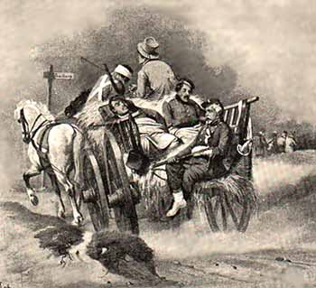 Injured soldiers 1848